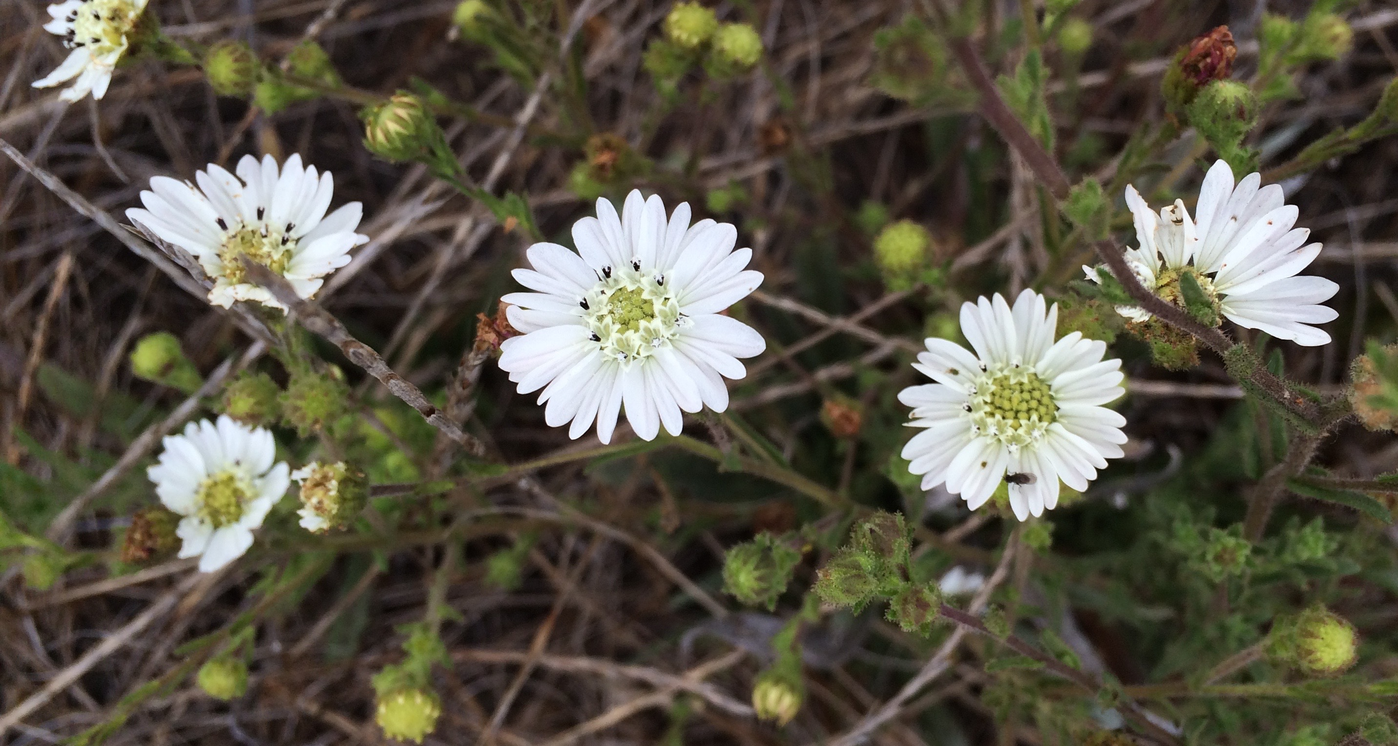 Hemizonia congesta ssp luzulifolia, per Wildflowers of SLO guidebook. On marine terrace at Estero Bluffs State Park, CA